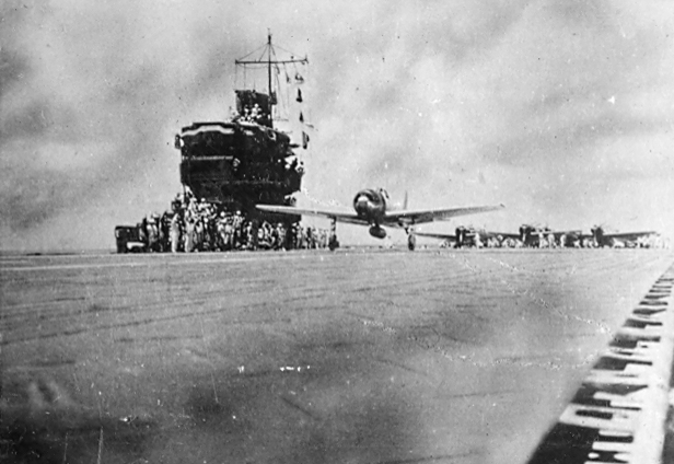 A Mitsubishi A6M Zero fighter taking off from a Japanese aircraft carrier.